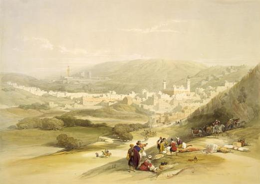 Painting of Hebron